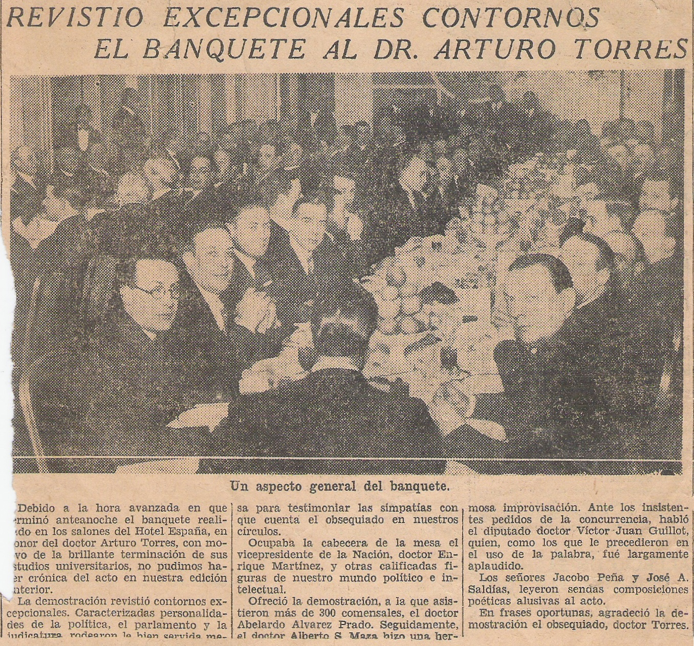 Banquet in honour of Secretary of Senate Dr. Arturo Torres, held at the Hotel España of Buenos Aires.